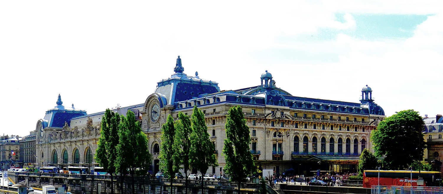 Orsay Museum ; quai Anatole-France - Paris